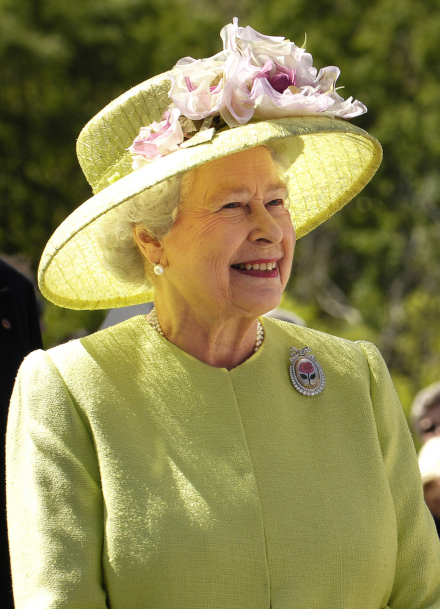 Queen Elizabeth II greets employees on her walk from NASA’s Goddard Space Flight Center mission control to a reception in the center’s main auditorium in Greenbelt, Maryland where she was presented with a framed Hubble image by Congressman Steny Hoyer and Senator Barbara Mikulski. Queen Elizabeth II and her husband, Prince Philip, Duke of Edinburgh, visited the NASA Goddard Space Flight Center as one of the last stops on their six-day United States visit.